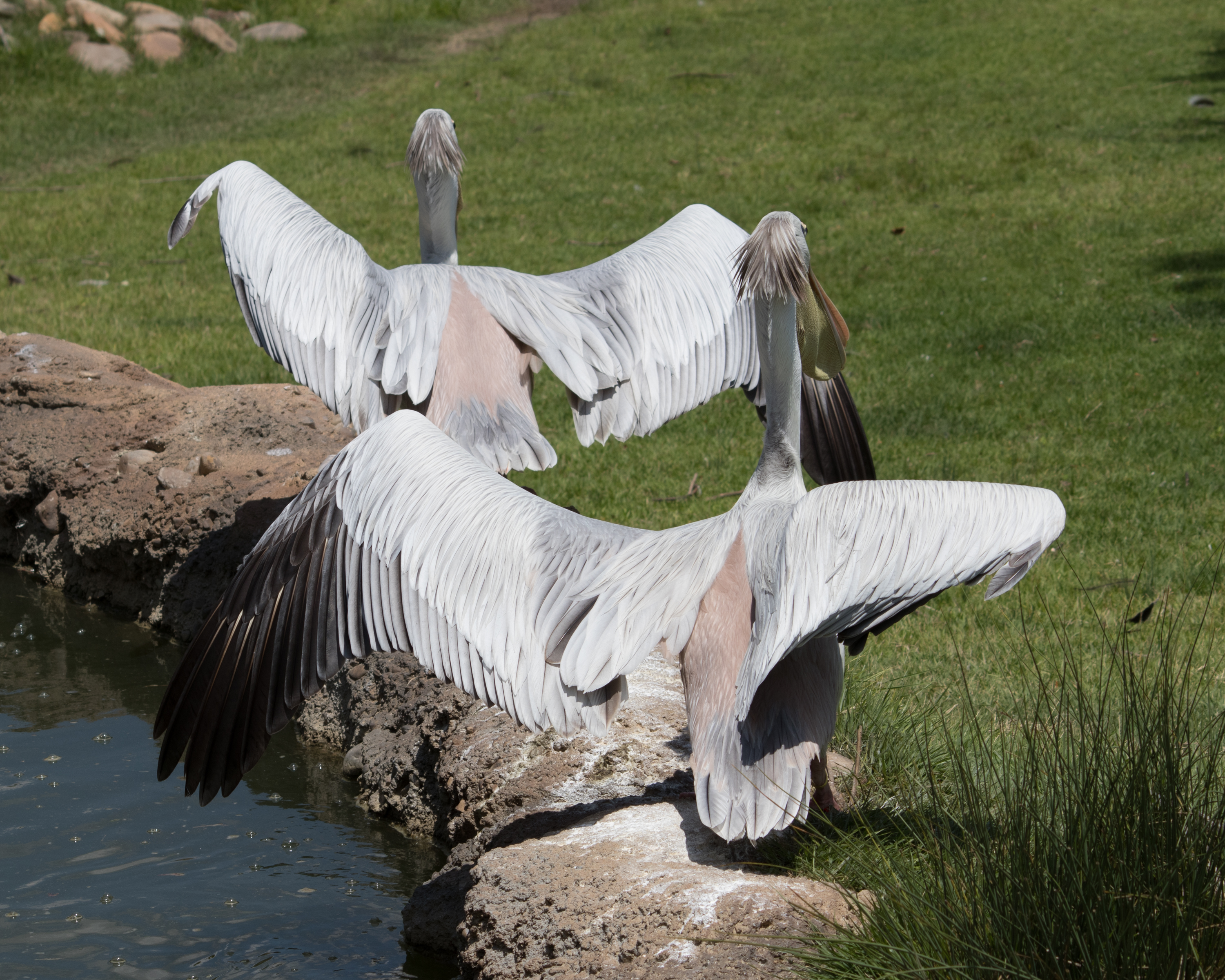 Captive pink backed pelican at the Cincinnati Zoo.